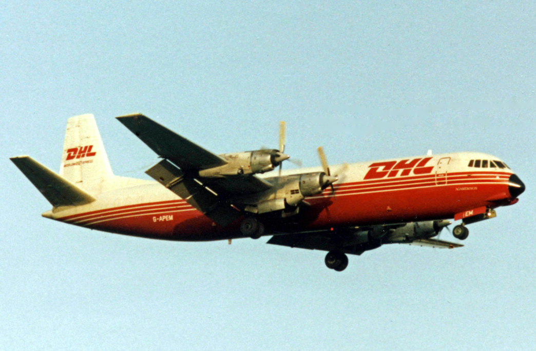 Vickers V953C Merchantman (Vanguard) of Air Bridge Carriers in DHL colours landing at Manchester (Ringway) Airport in 1992